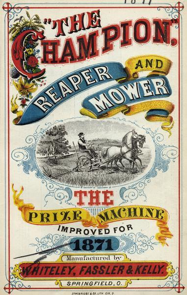 Cover of an advertising brochure for "The Champion, Reaper and Mower" - Manufactured by Whiteley, Fassler & Kelly. The cover features an illustration of farmer in the field with a horse-drawn mower.